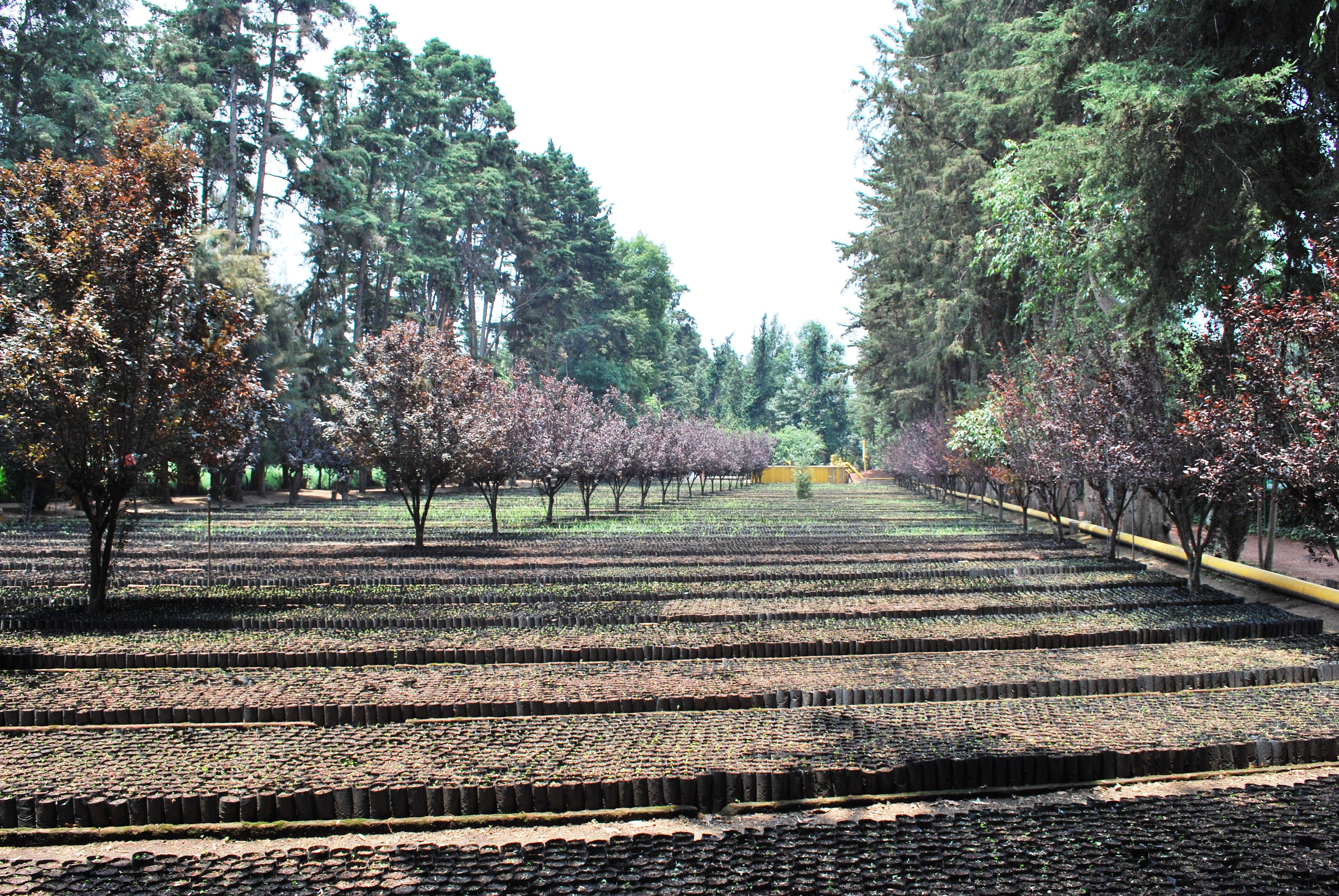 Seedlings growing at the Viveros de Coyoacan park and plant nursery in Coyoacan borough of Mexico City